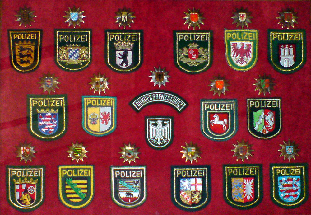 sleeve and cap ensigns of the 16 state police forces and the former Bundesgrenzschutz (now Bundespolizei; emblem did not change) in Germany